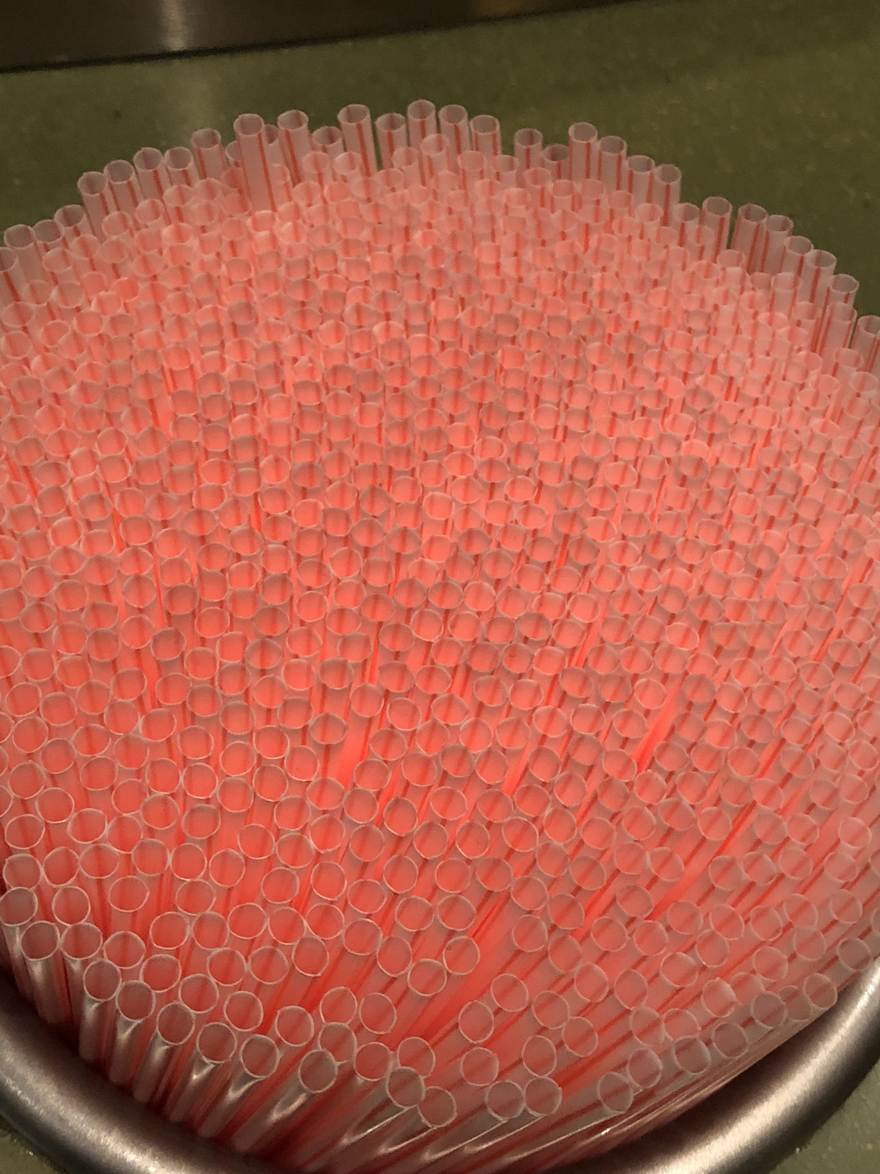 Drinking straws in a container.